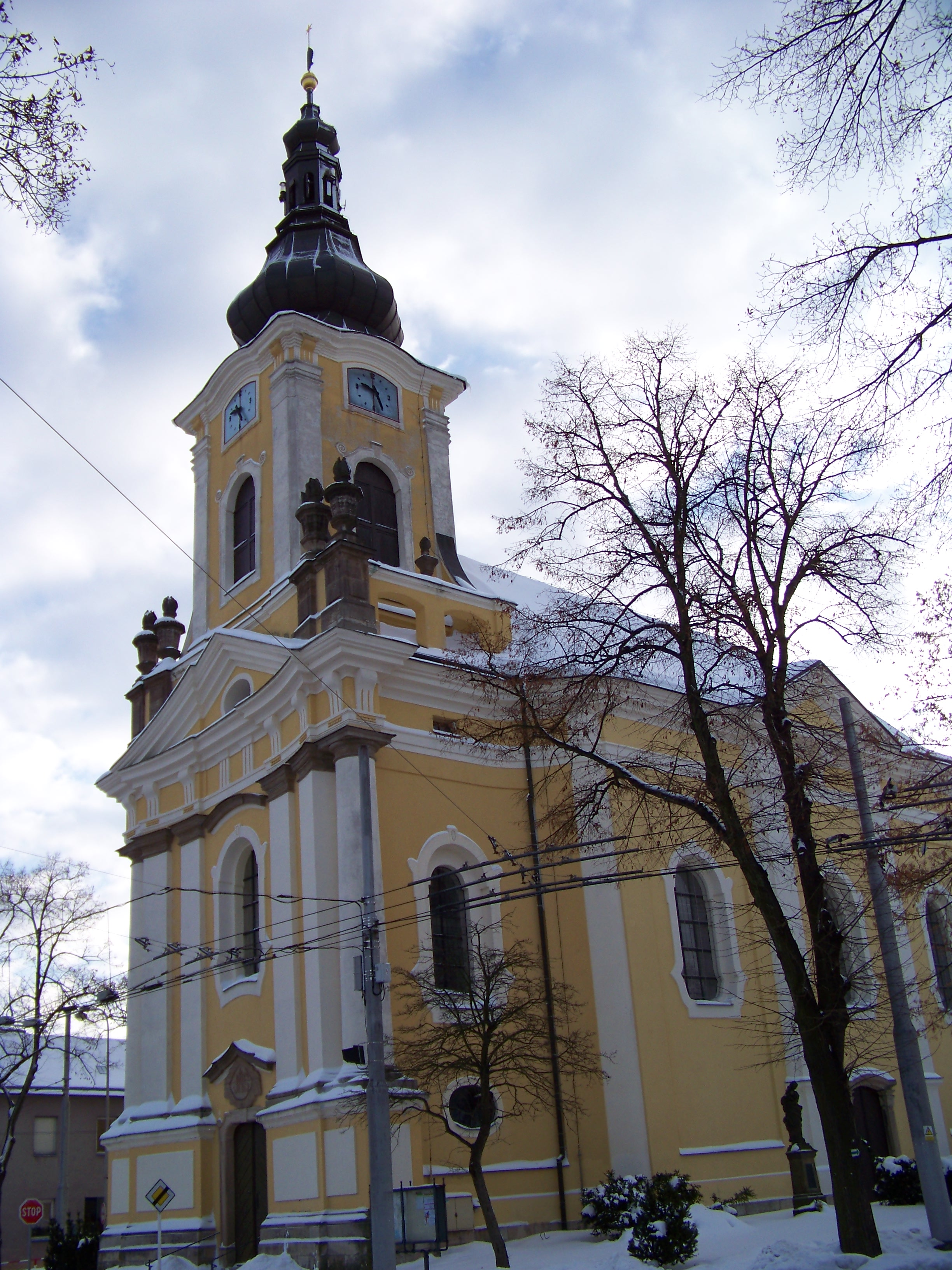 Hradec Králové-Nový Hradec Králové, the Czech Republic. Saint Wenceslaus Square, the church of Saint Anthony the Hermit. - Google Maps - Google Earth